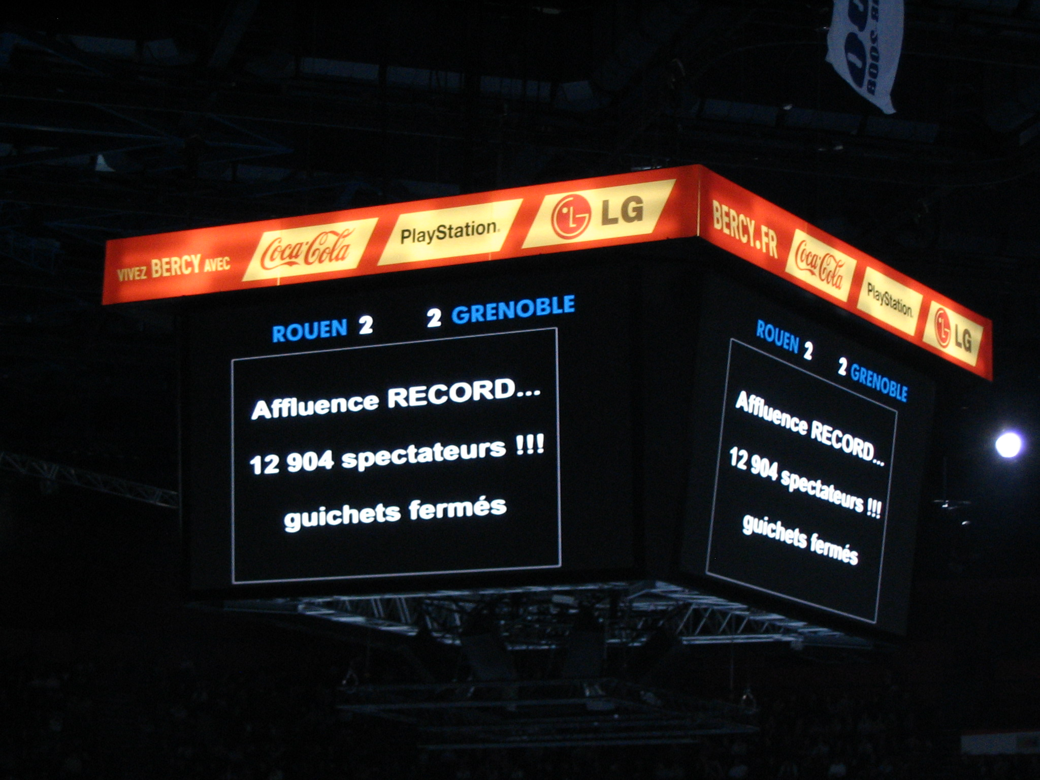 Ice Hockey French Cup Final 2007-2008 at Paris-Bercy